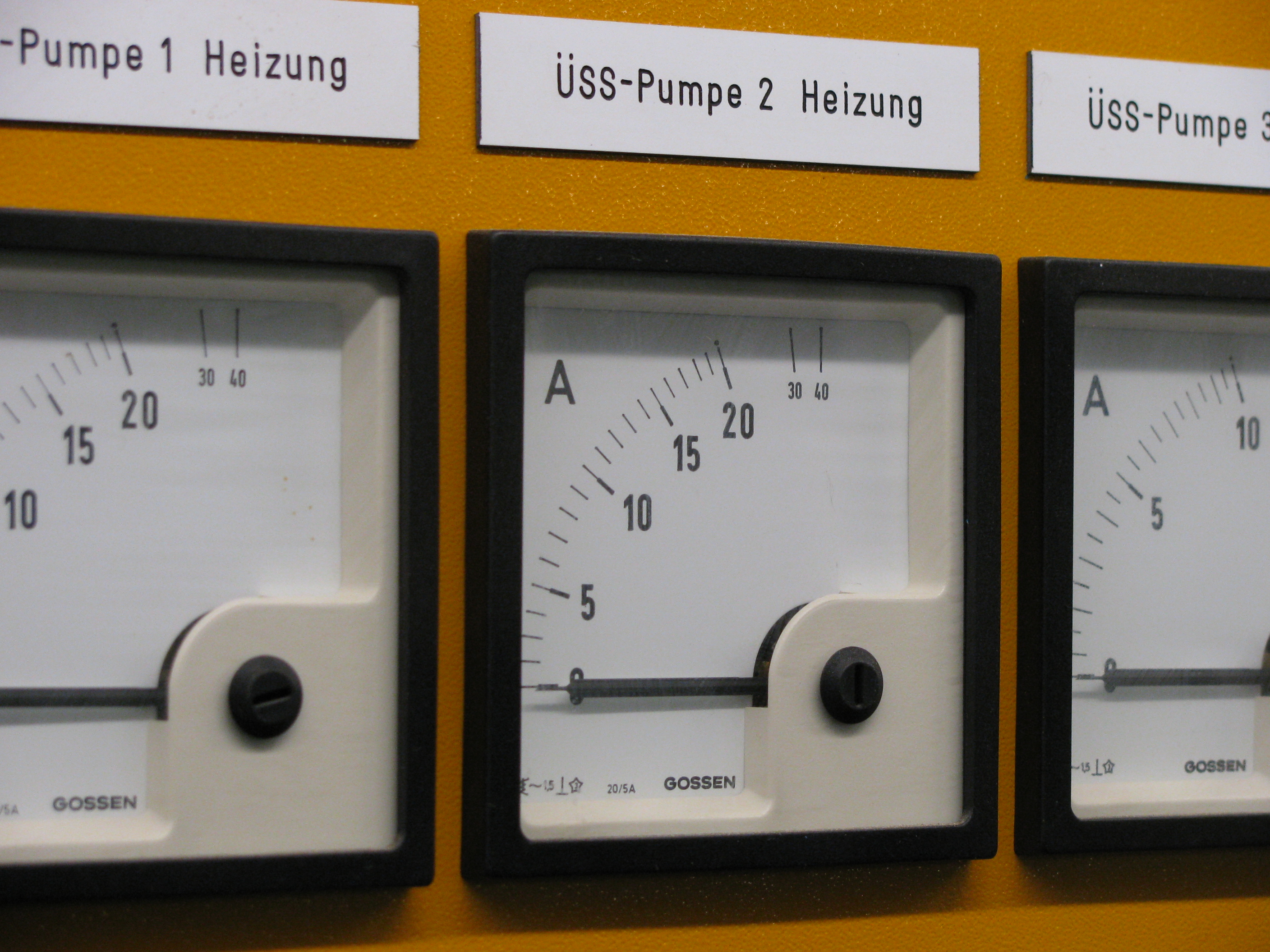 Germany - Baden-Württemberg - Bodenseekreis - Kressbronn am Bodensee: Wastewater treatment plant, three ampere-meters